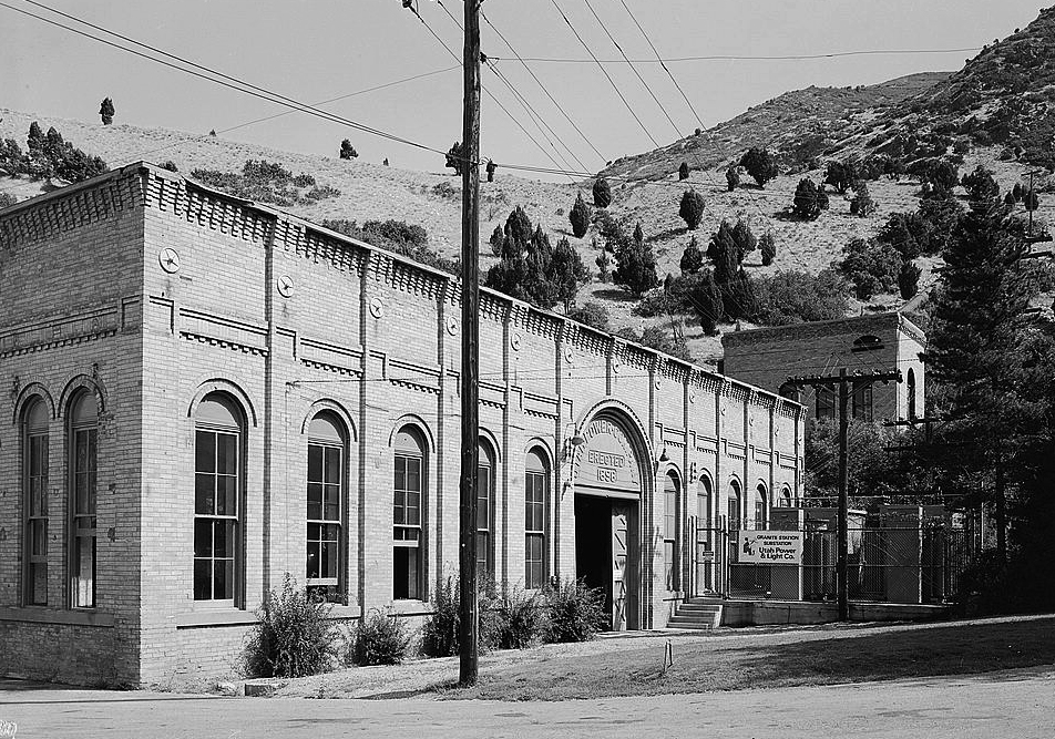 Granite Power Station, Big Cottonwood Canyon, near Salt Lake City, Utah, USA